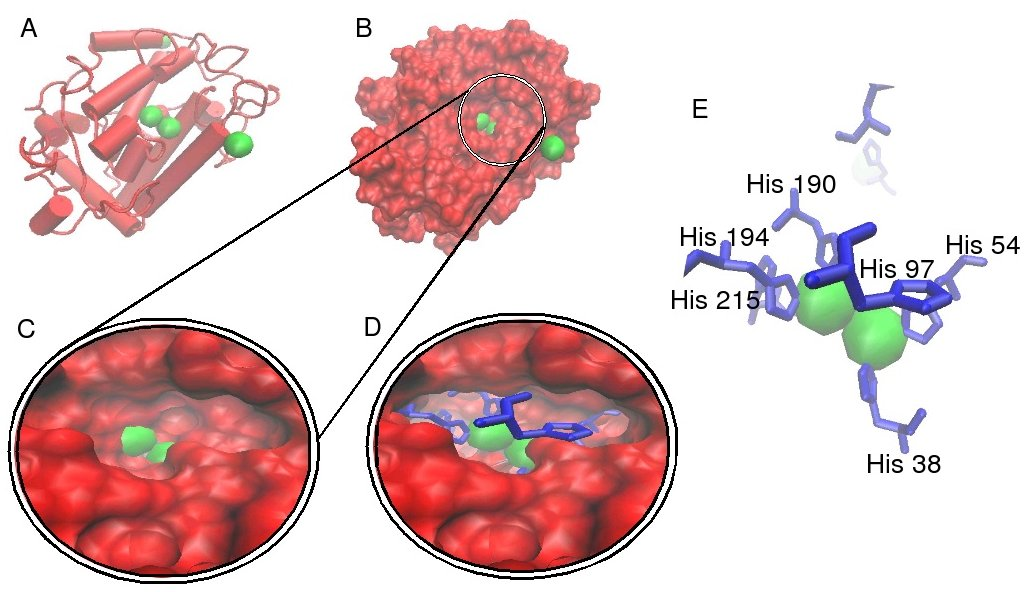 This image was created using a combination of VMD, powerpoint openoffice and GIMP.